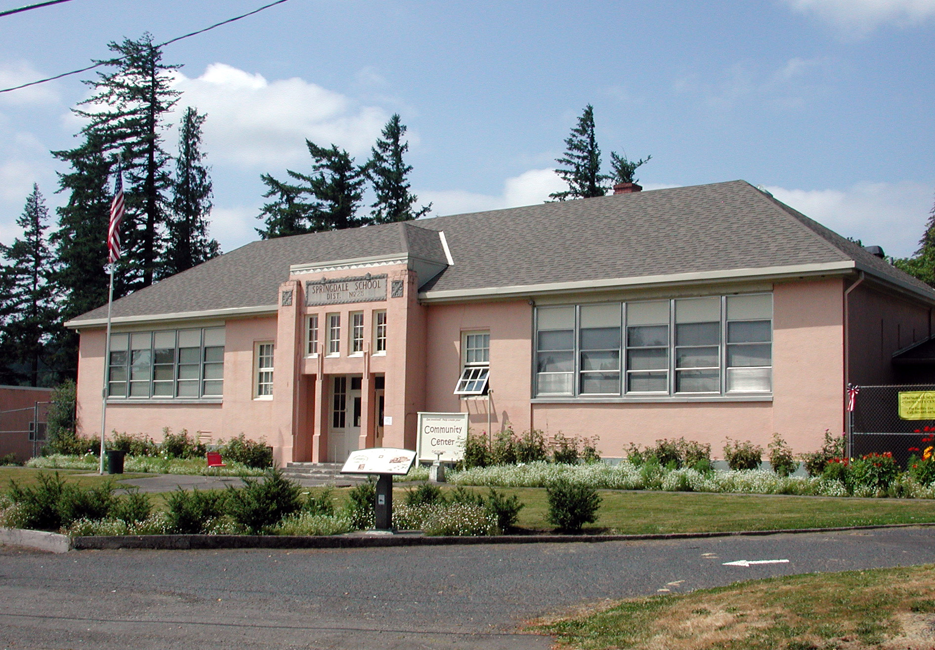 Springdale School in Springdale, an unincorporated community in Multnomah County, Oregon, in the United States. View is to the north.